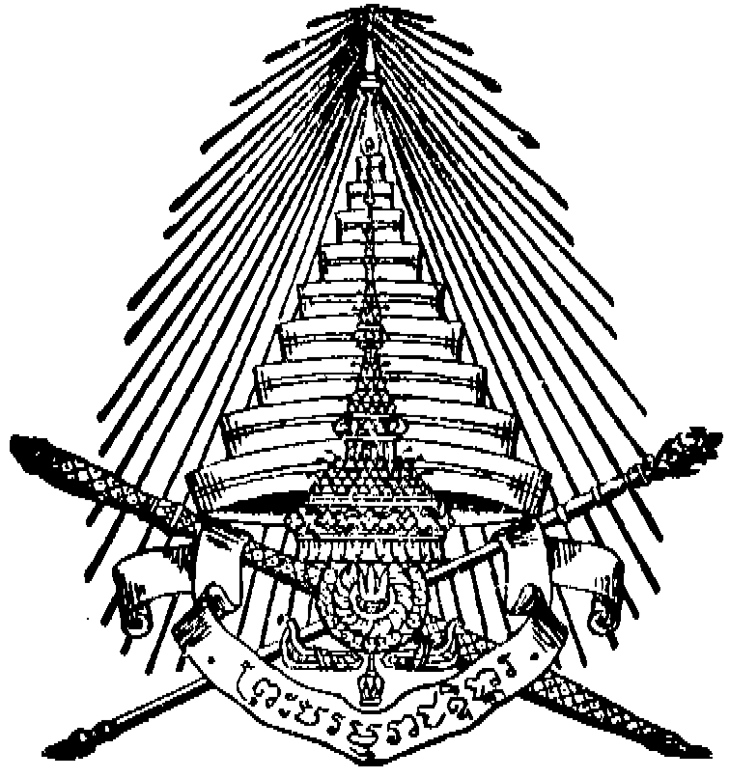 In Thailand, a royal command (พระบรมราชโองการ, Phra Boromma Ratcha Ongkan) is a directive of the King of Thailand. The Seal of the Royal Command is used on the heading of King-related documents. There are two Seals of the Royal Command: one consisted of Khmer scripts, stating "ព្រះបរម្មរាជឱង្ការ" (พฺระบรมฺมราชโองฺการ, royal command), and was in use until 1940; the other consists of Thai scripts, stating "พระบรมราชโองการ" (royal command), in lieu of the said Khmer scripts, and has been used from 1940 until now. Please note that, in olden times, Khmer scripts were considered sacred characters in Thai tradition, but this belief might have been changed due to several conflicts between Thailand and Cambodia. For example, one may see the Seal of the Royal Command on the heading of this Consumer Protection Act (No. 3), BE 2556 (2013), which has been published in the Government Gazette on 18 March 2013. One may also find further information at The Royal Emblems and the Positional Seals (in Thai).